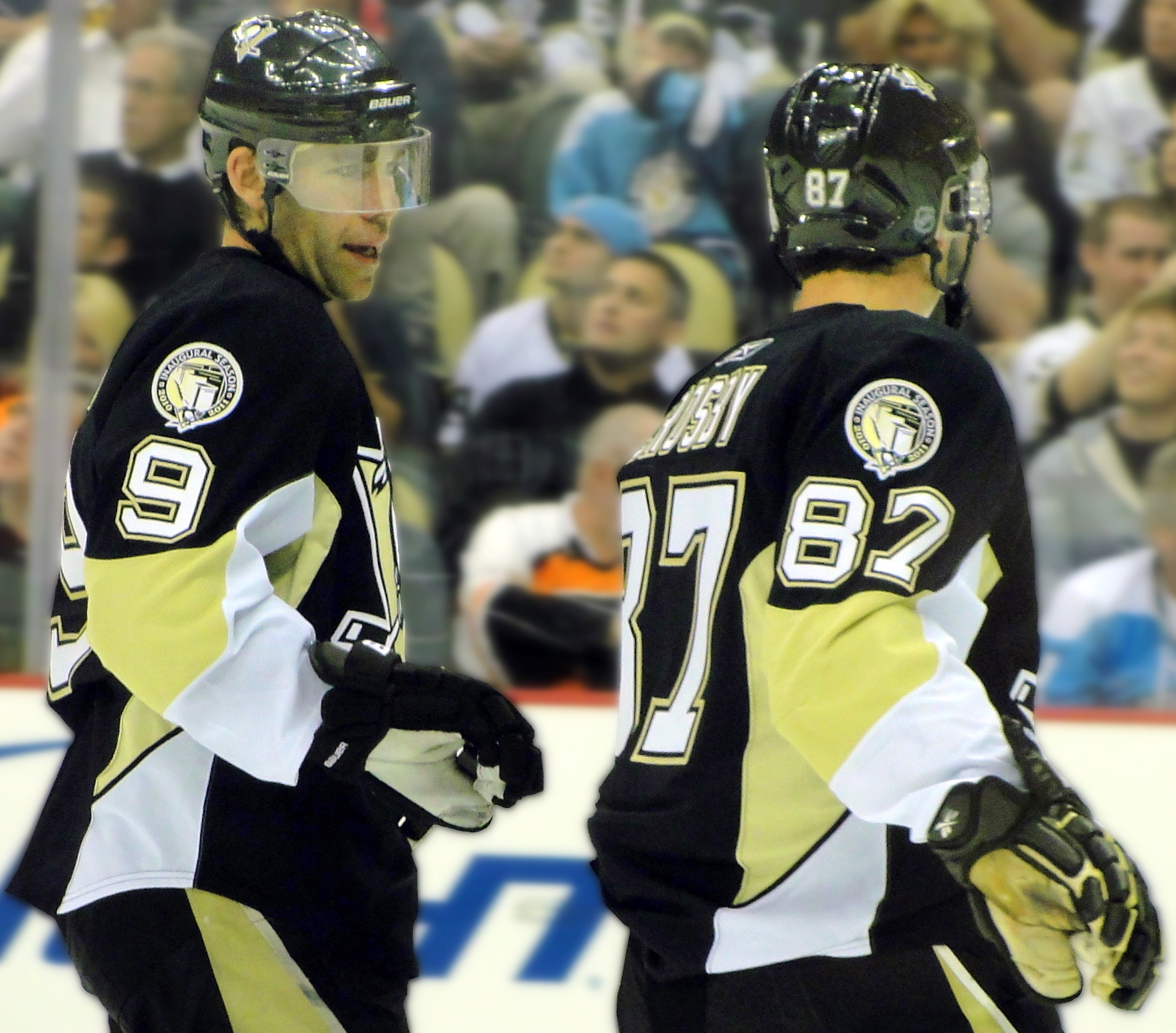 Pascal Dupuis and Sidney Crosby of the Pittsburgh Penguins against the Philadelphia Flyers, October 7, 2010 in the inaugural regular season game at Consol Energy Center in Pittsburgh, PA.